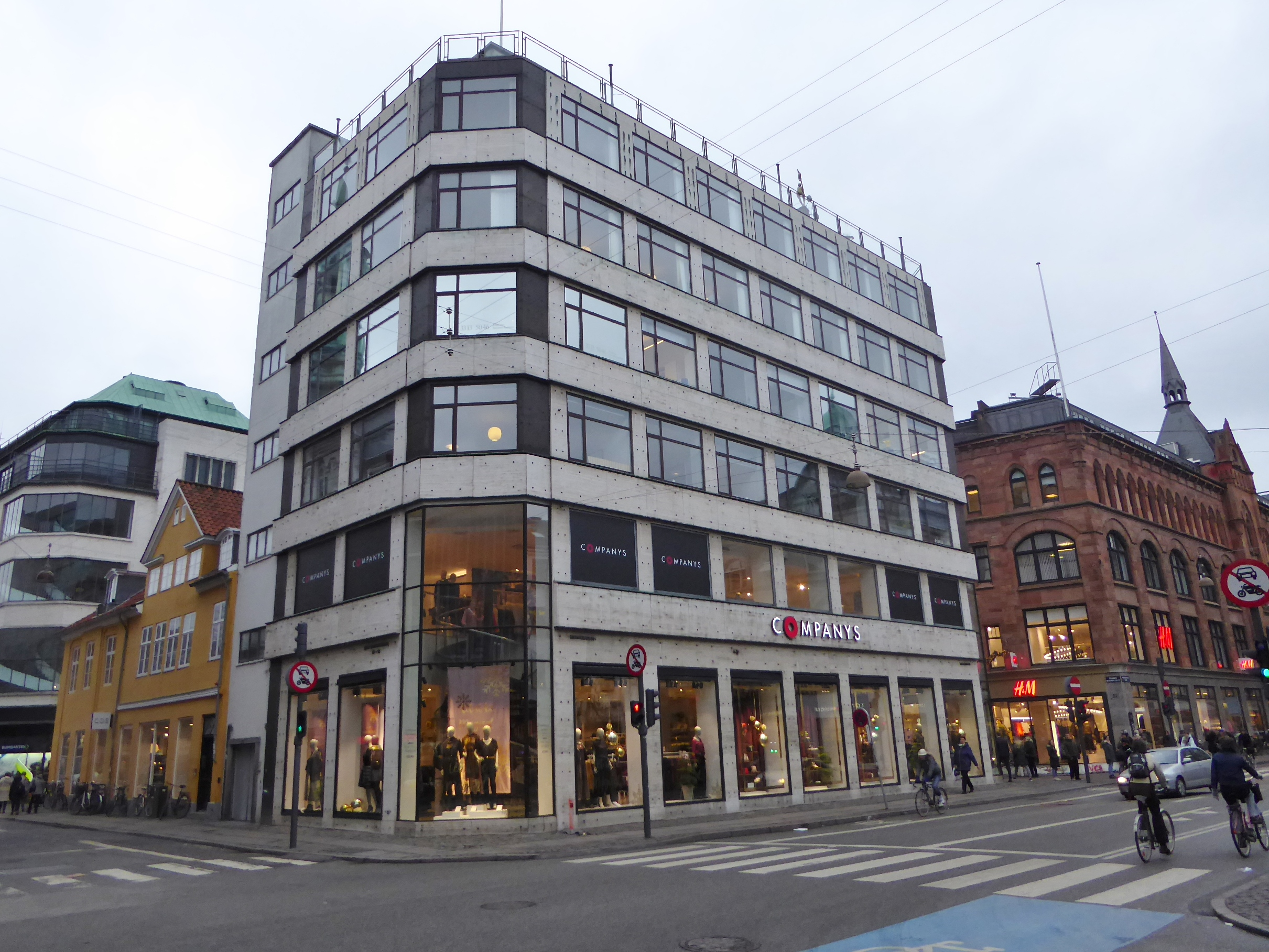 Office building at Bremerholm in Indre By in Copenhagen.